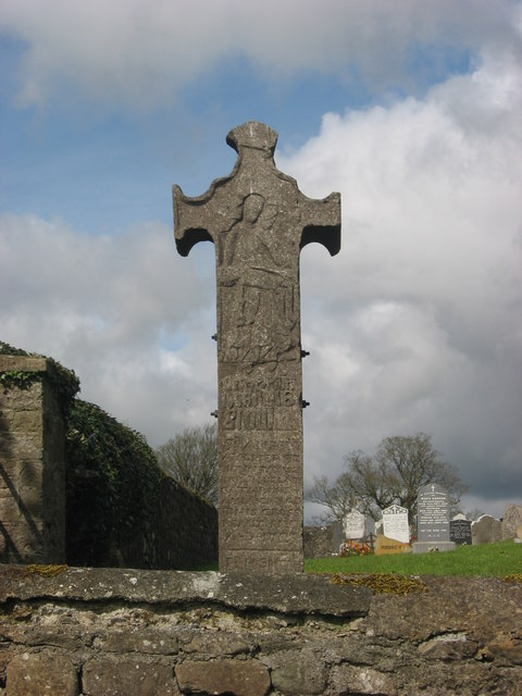 Balrath cross, east face The sixteenth-century wayside cross, formerly at Balrath crossroads, now re-erected at Ballymagarvey church. The east face depicts the Pietá with latin inscription below 'Pray for John Broin'.